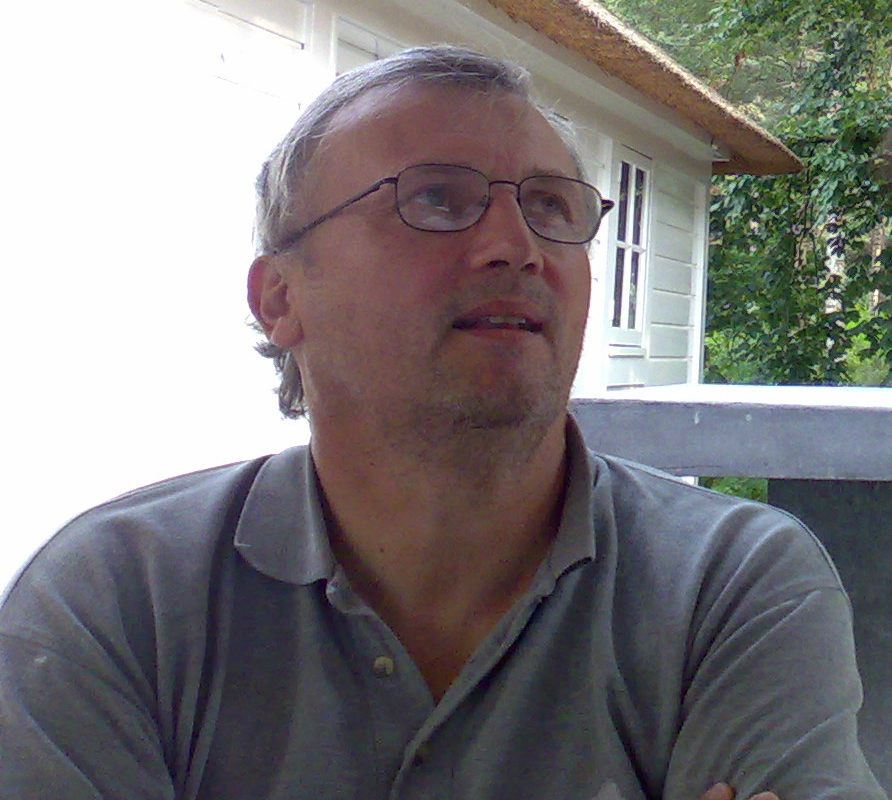 picture of Oscar Brenifier